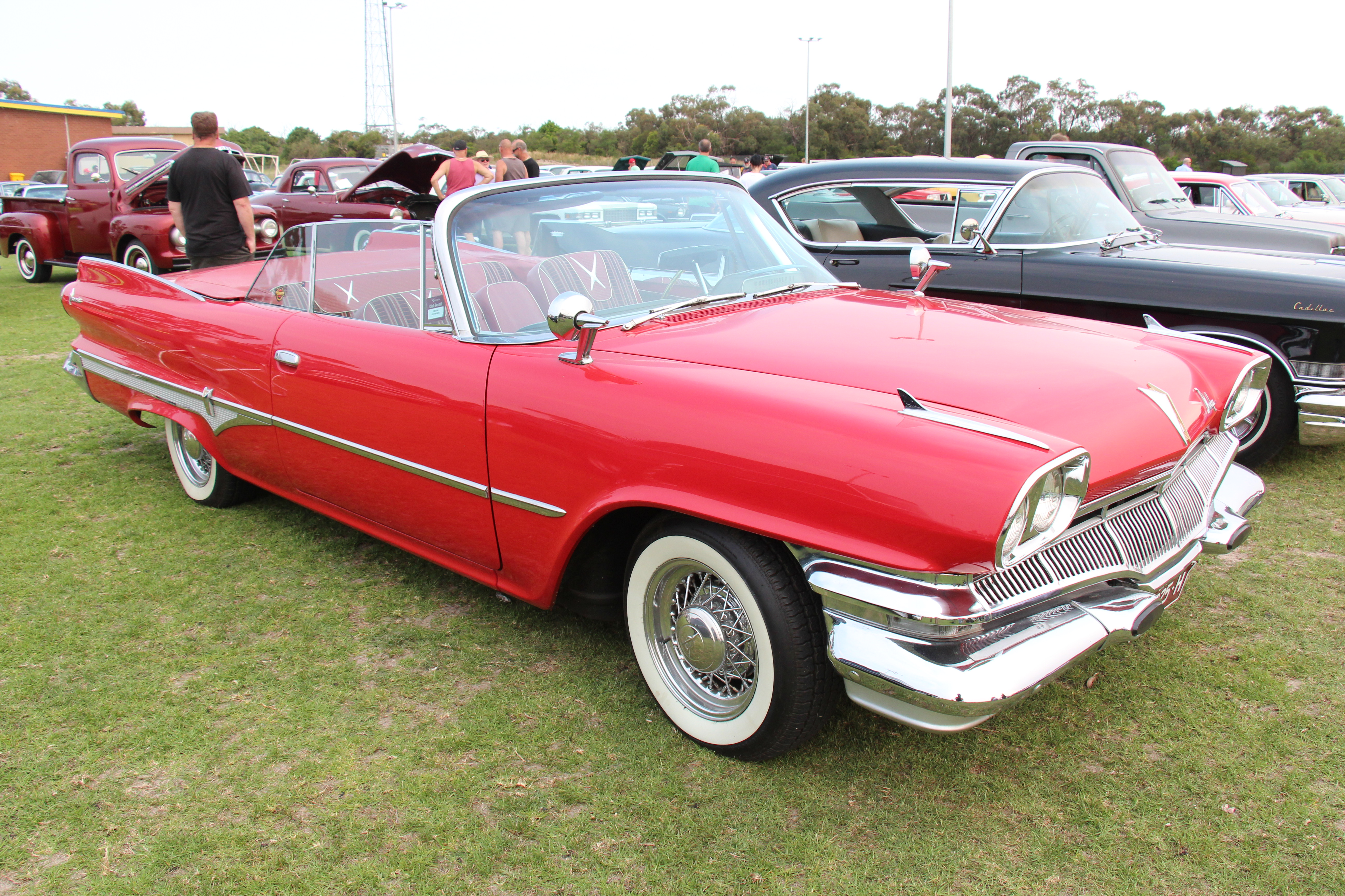 The 1st year for the Dodge Dart, built on a Plymouth chassis, a full size car for 1960/61. They were offered in 3 trim levels: the basic Seneca, mid-range Pioneer, and premium Phoenix. Available in 4 door sedan and wagon, 2 door sedan, hardtop and convertible. In 62 they became a mid size car, from 1963 on a compact. Engine; 225 cu in Slant-6. 318 cu in and 361 cu in V8s